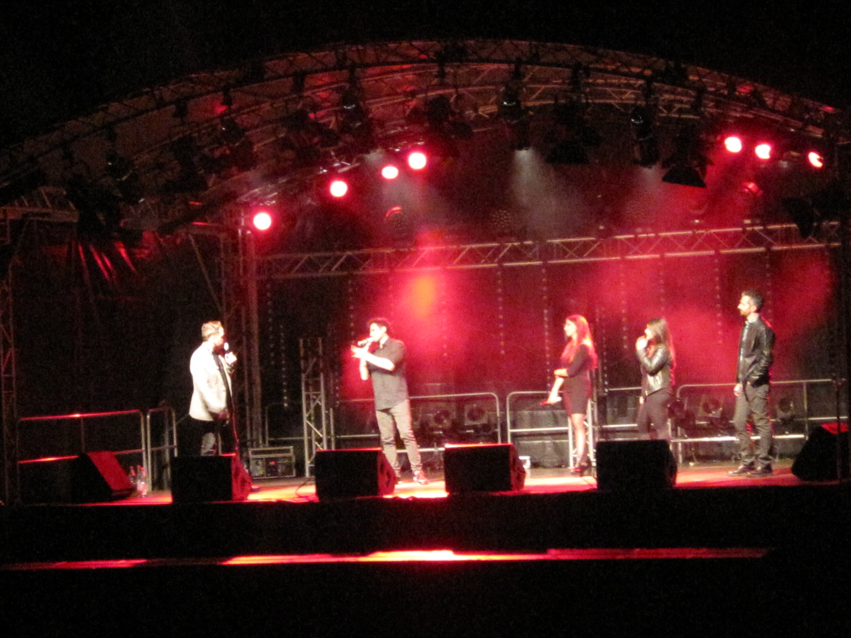 italian A capella group Cluster from Genoa